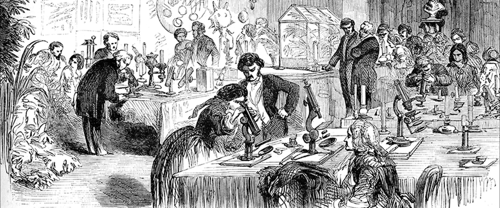 A scientific conversazione on microscopy held at Apothecaries' Hall London on April 11th, 1855. Amateur microscopists show there apparatus.